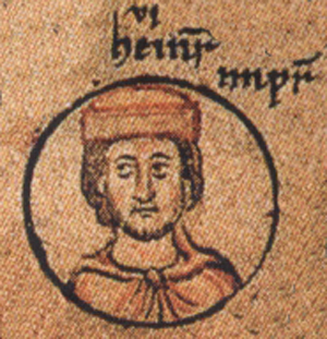 Henry VI, Holy Roman Emperor